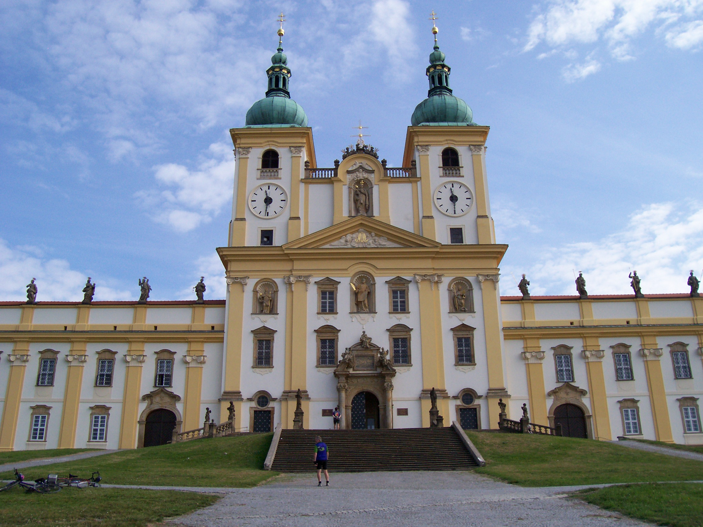 Svatý Kopeček: St Mary's Minor Basilics